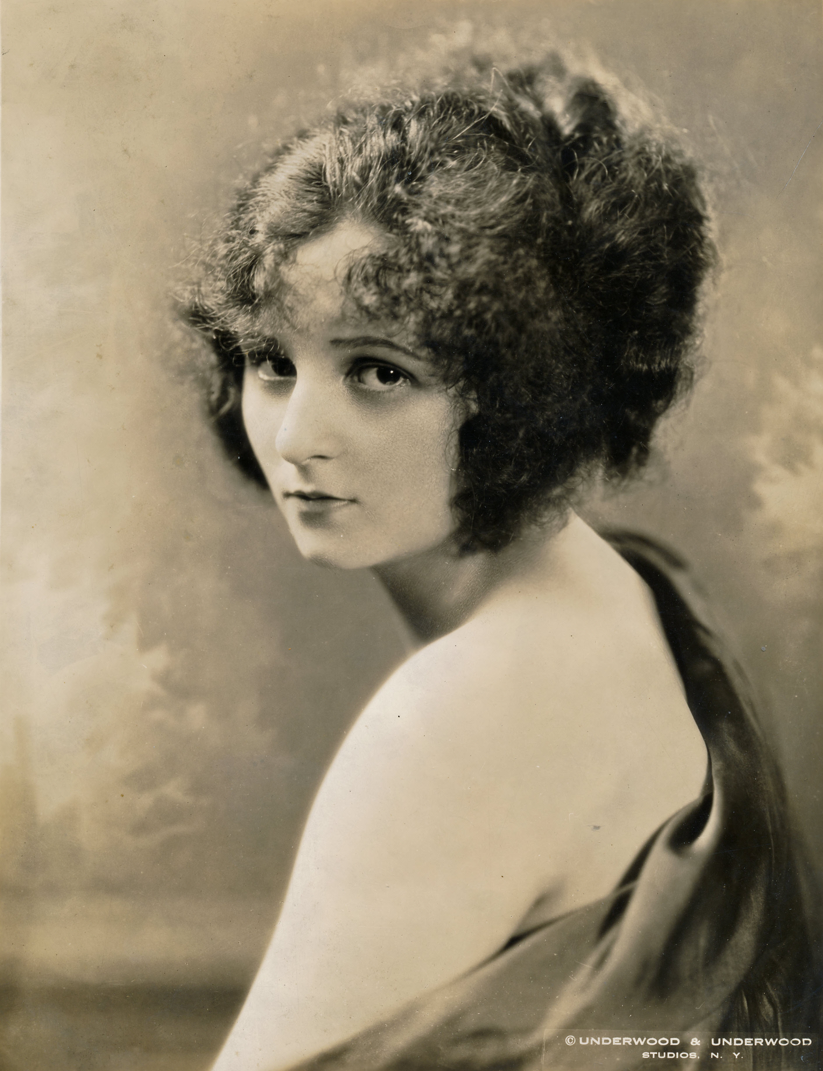 Portrait of dancer Virginia Myers 1926